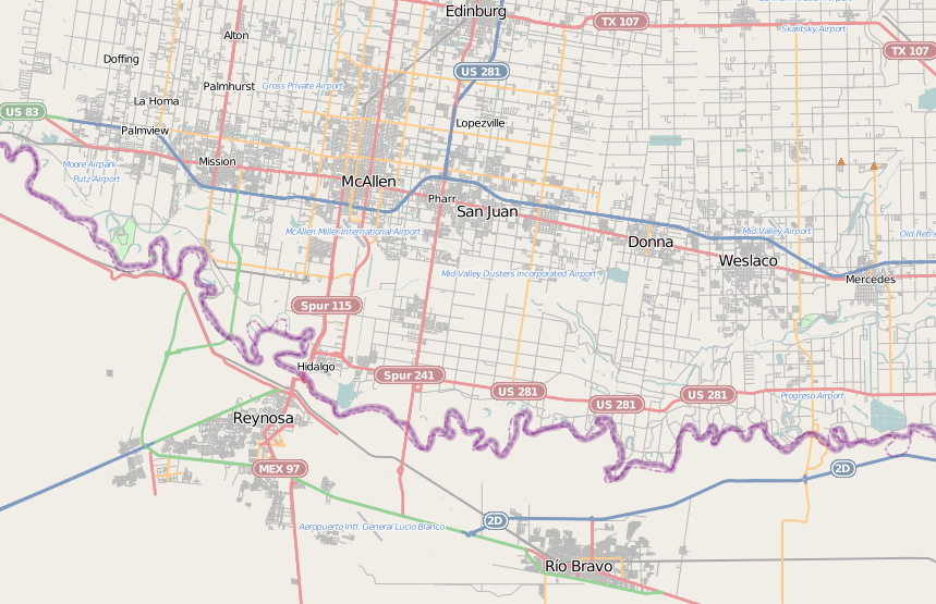 Map of Reynosa–McAllen (primary urban area) was created from OpenStreetMap project data, collected by the community.